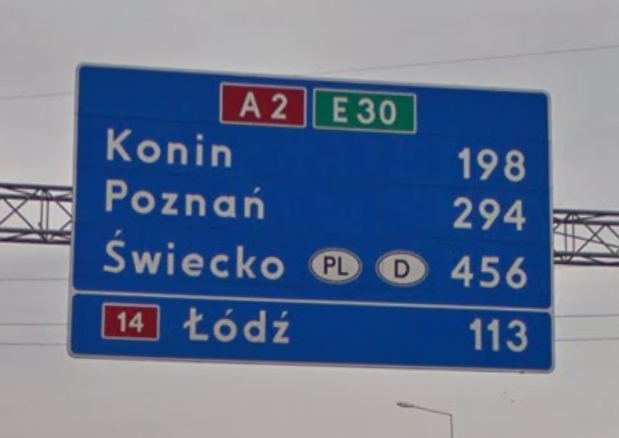 Control city sign near Warsaw, Poland